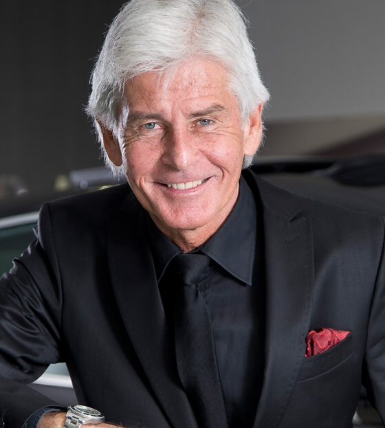 Frederic Meisner